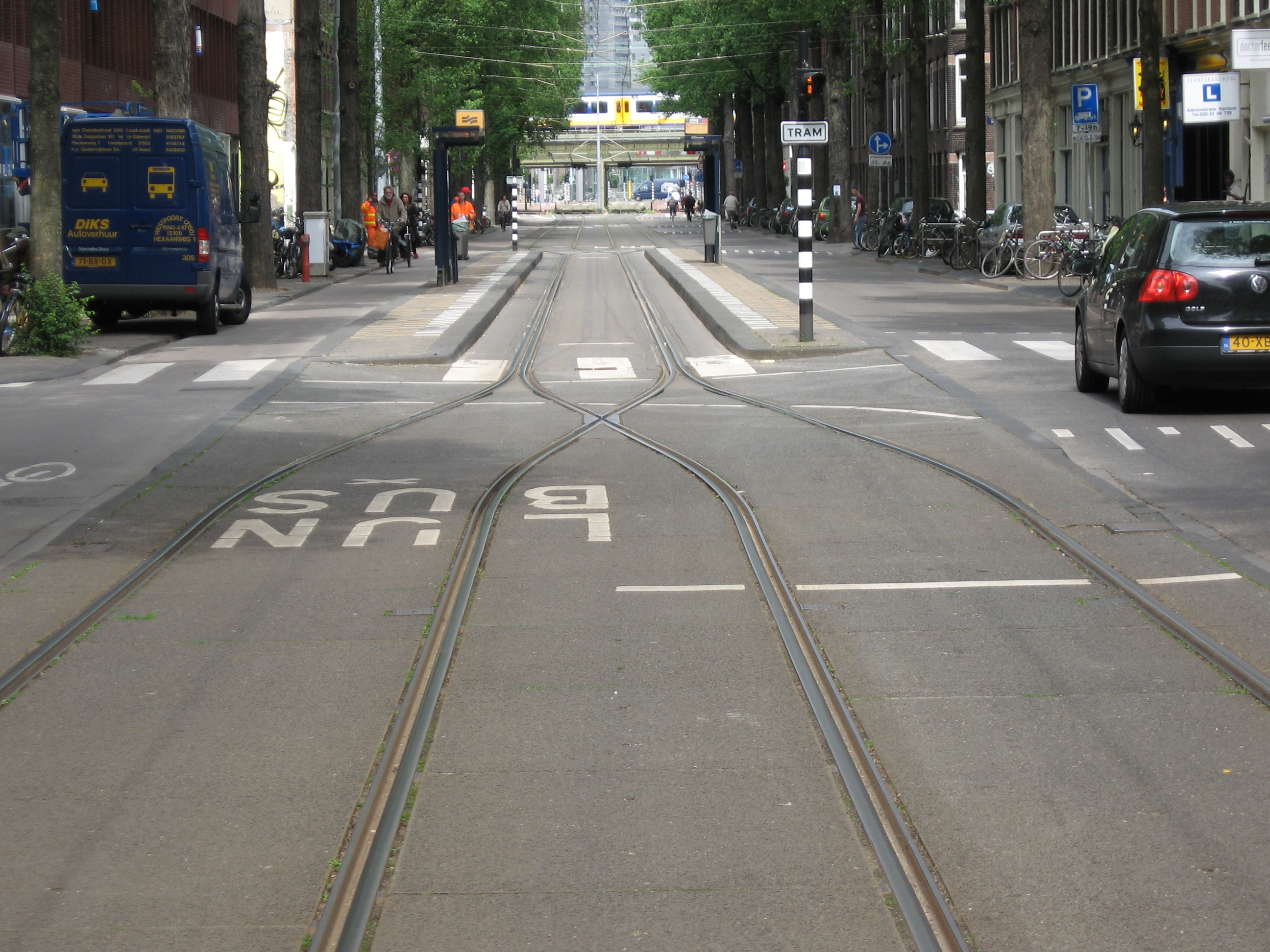 Tram rails at the route 10 stop in Czaar Peterstraat, Amsterdam: two tracks squeeze together; no switch, no moving parts.